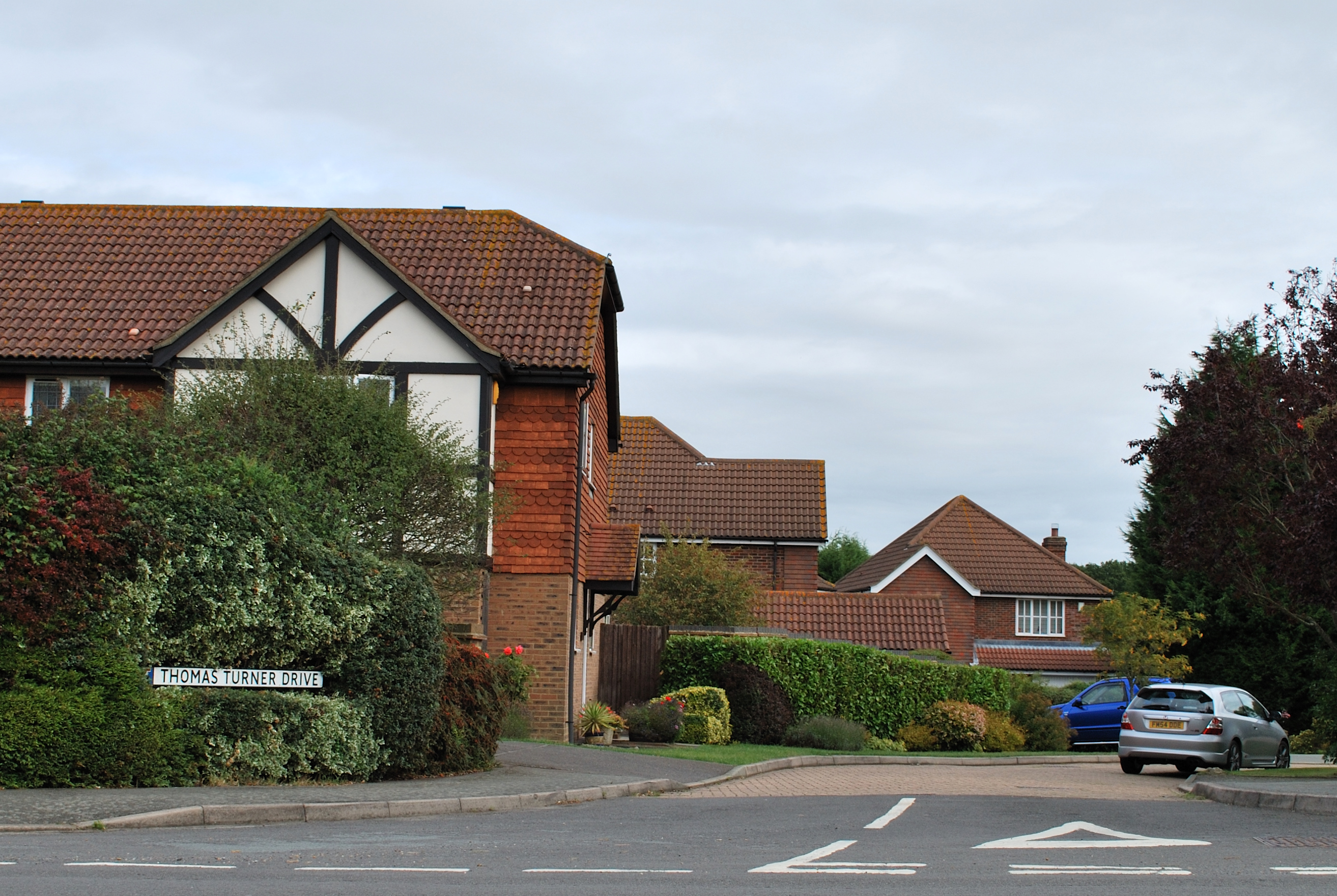 Thomas Turner Drive, named after the eighteenth-century diarist Thomas Turner, in East Hoathly